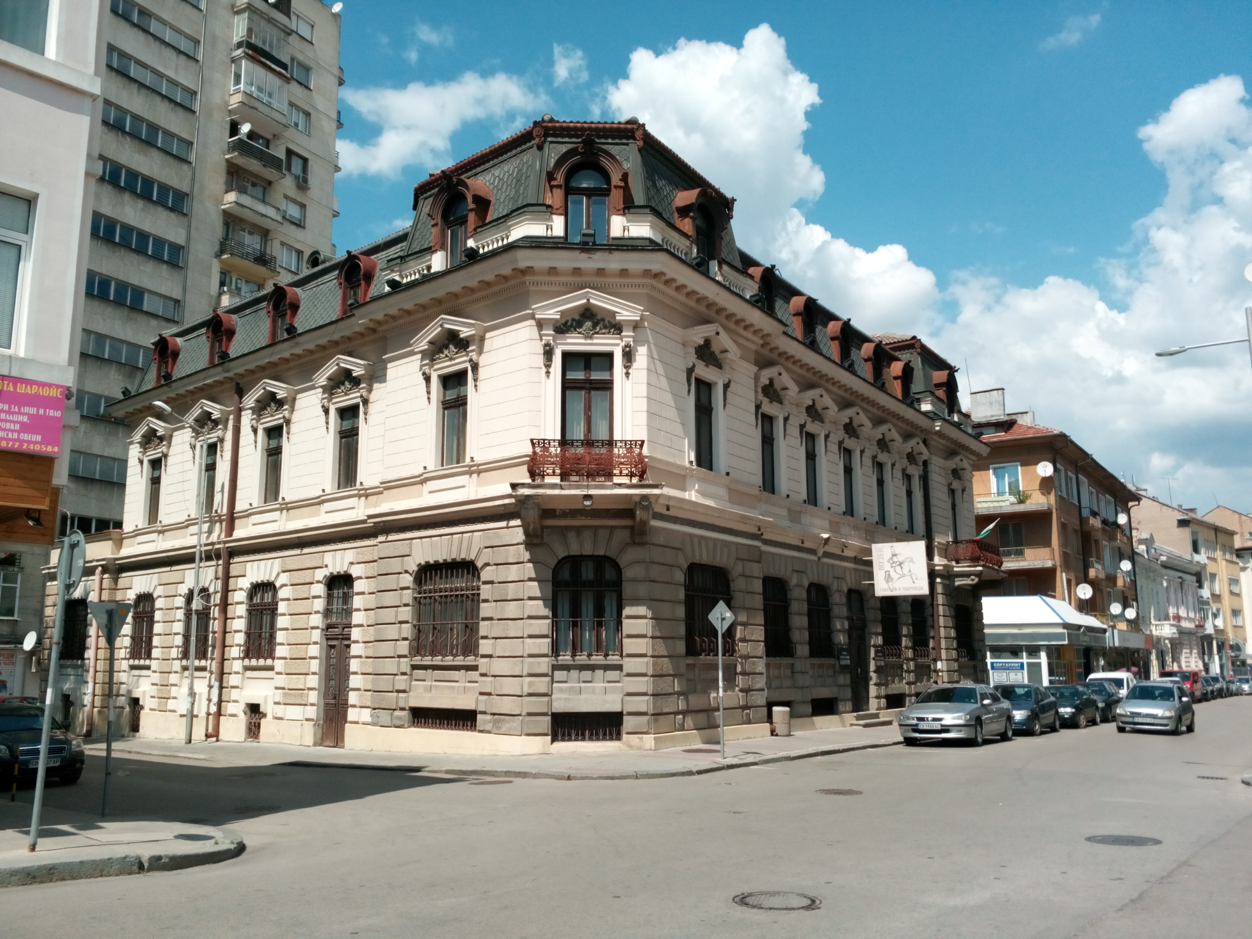 Регионален музей Габрово